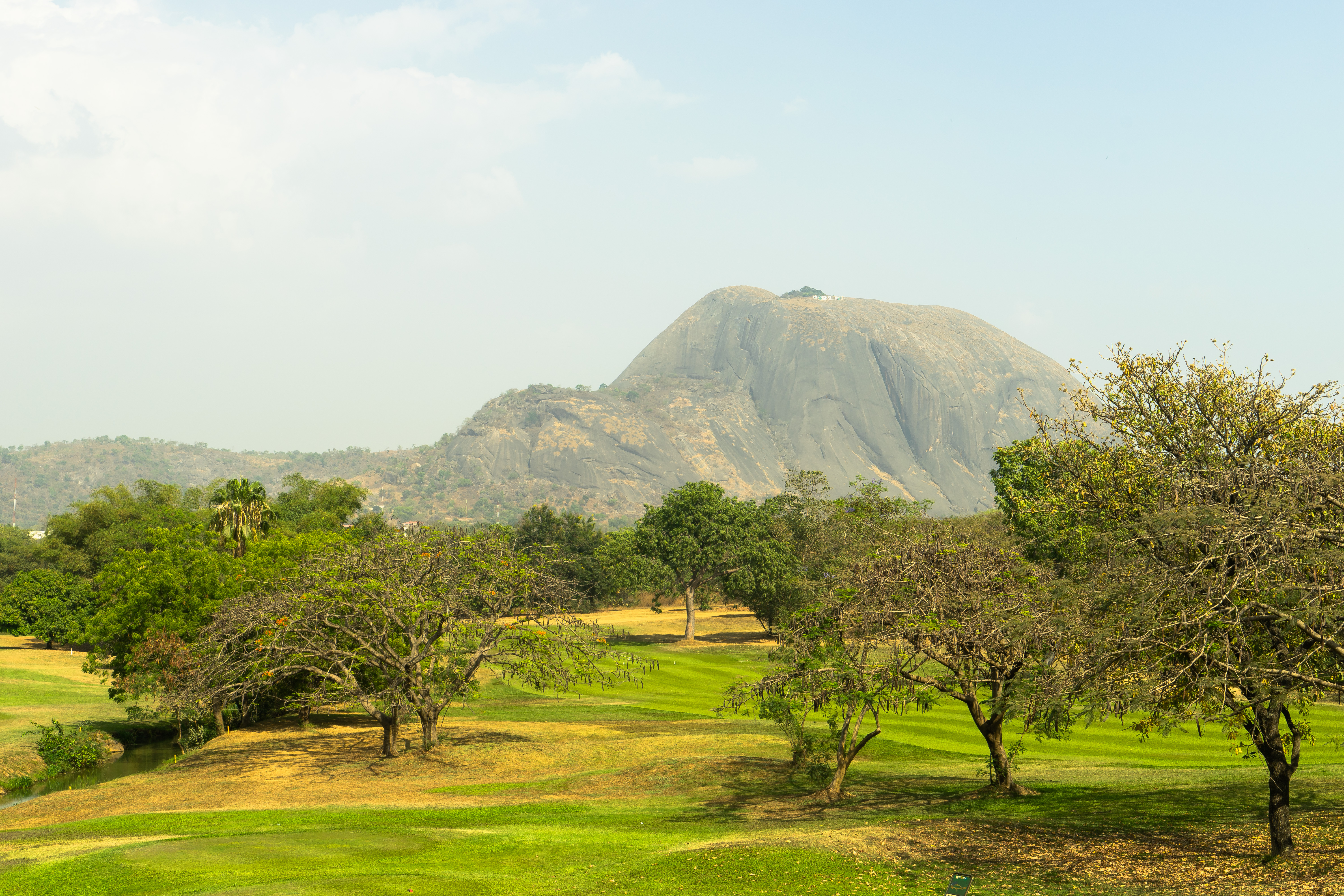 Aso Rock as seen from the IBB golf course in Abuja, Nigeria.